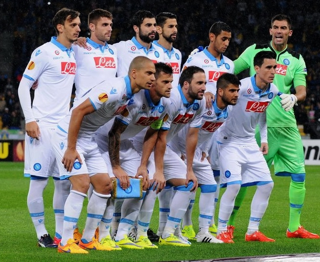 S.S.C. Napoli 2015